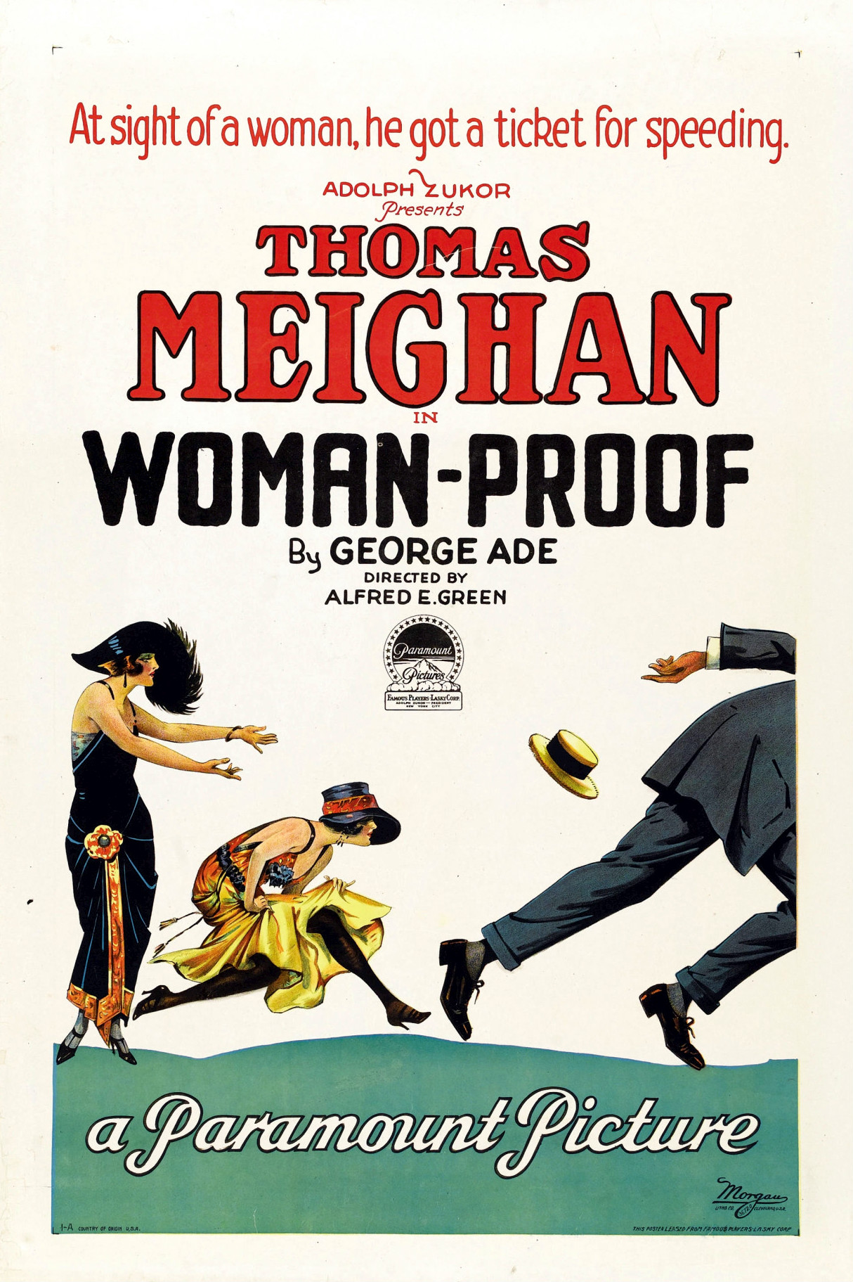 Poster for the American comedy film Woman Proof (1923). There are no copyright marks as can be seen at the links. At bottom left is 1-A Printed in USA' At bottom right is This poster leased from Famous Players Lasky Corp. and the Morgan Litho Company of Cleveland Ohio's logo-they printed the poster.